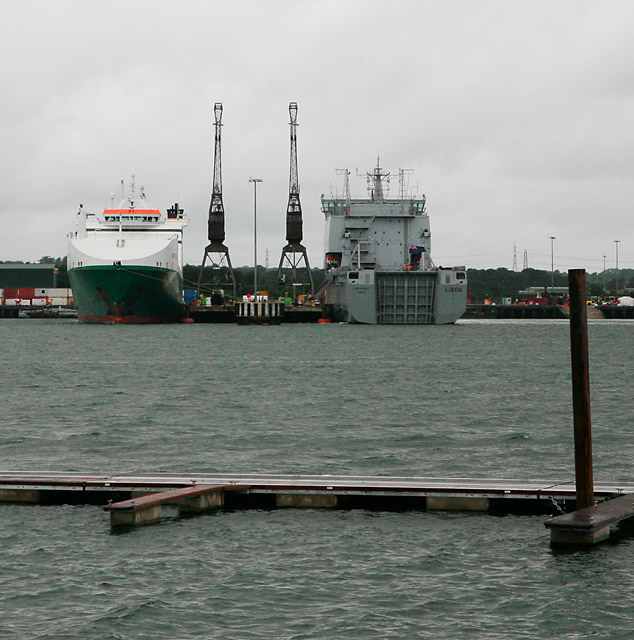 Piers of Marchwood Military Port seen across the River Test Looking from Mayflower Park. The ship on the right is RFA Largs Bay (L3006 - alternative landing ship logistics) which entered service in December 2006. Its vehicle deck can accommodate 24 Challenger tanks or 150 jeeps. The ship on the left is the ferry Hurst Point. Pontoons in the foreground, I suspect, are preparations for the Southampton Boat Show.